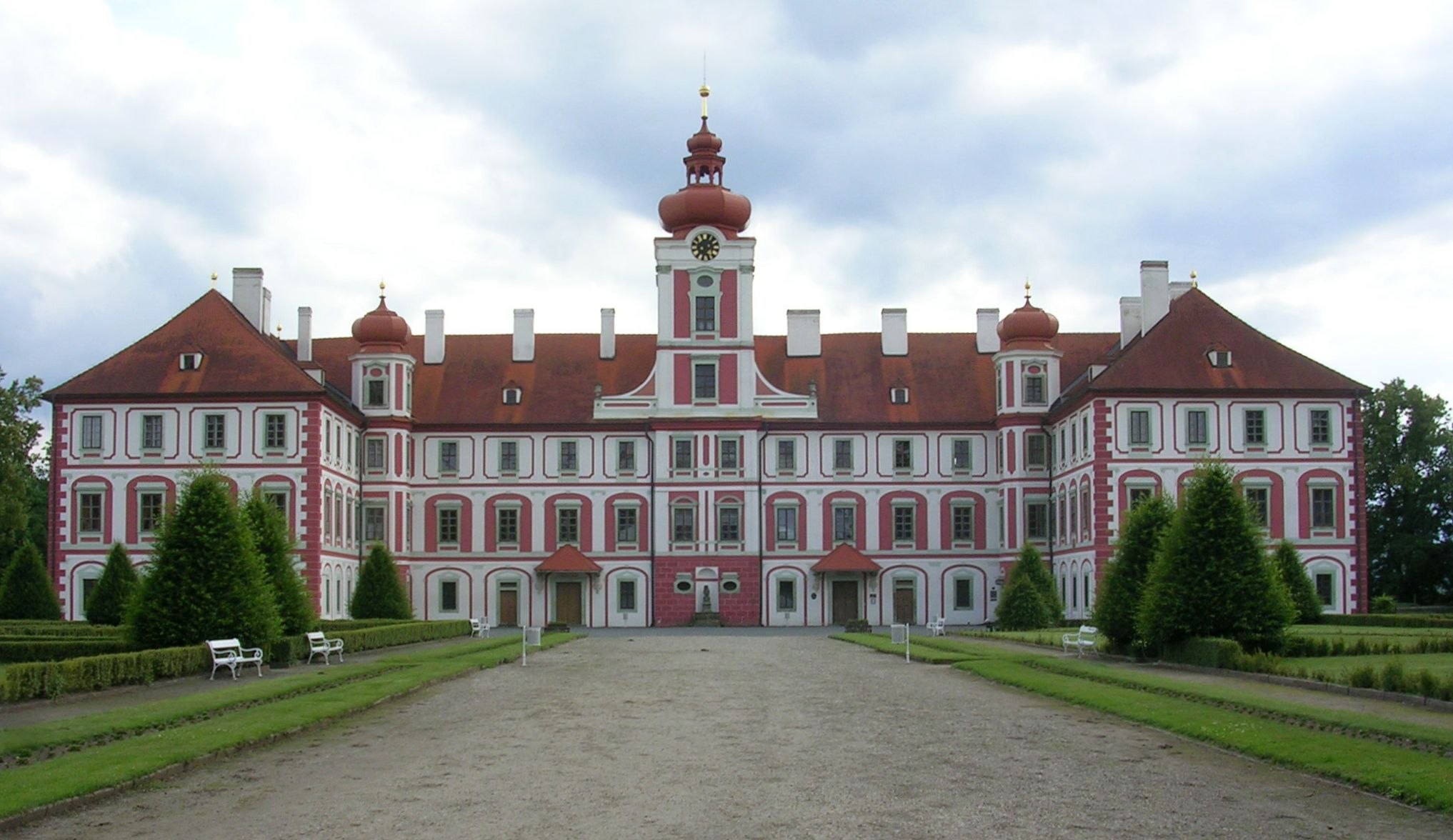 Mnichovo Hradiště Castle, Mladá Boleslav District, Central Bohemian Region, the Czech Republic. - Google Maps - Google Earth